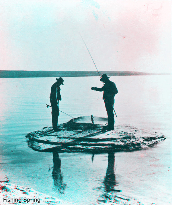 Anaglyph image of fishing in Fishing Cone Geyser